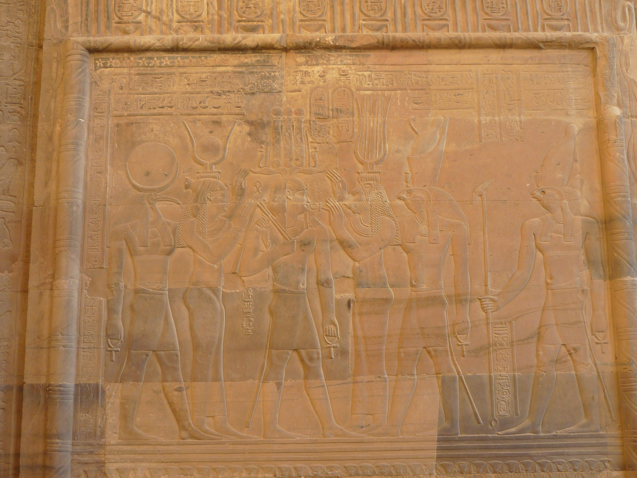 Wall relief of Thoth, Nut, Ptolemy XII, Isis, Horus and Ra (right to left), Kom Ombo Temple, Egypt